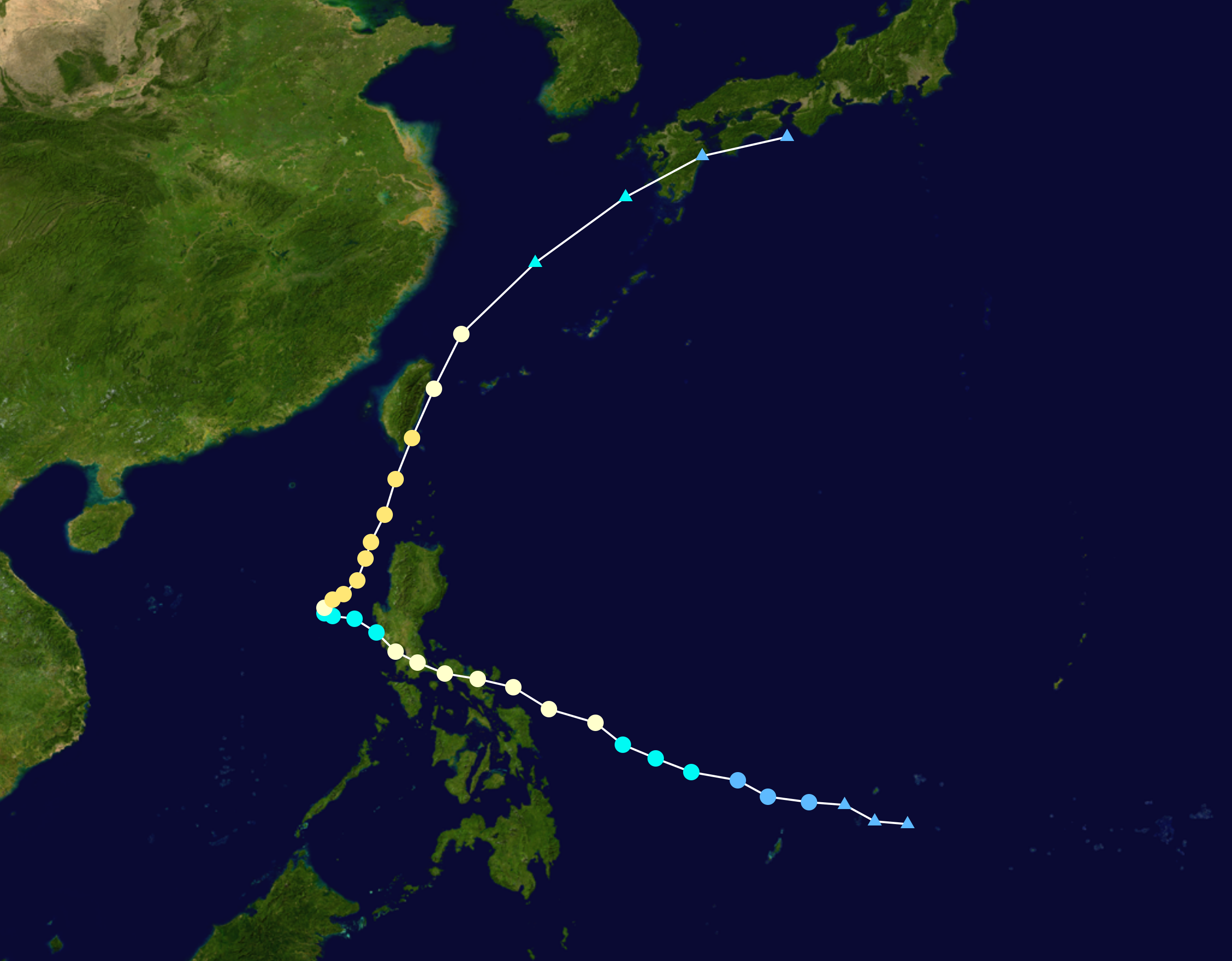 Track map of Typhoon Xangsane of the 2000 Pacific typhoon season. The points show the location of the storm at 6-hour intervals. The colour represents the storm's maximum sustained wind speeds as classified in the Saffir–Simpson scale (see below), and the shape of the data points represent the nature of the storm, according to the legend below. Saffir–Simpson scale Tropical depression≤38 mph≤62 km/h Category 3111–129 mph178–208 km/h Tropical storm39–73 mph63–118 km/h Category 4130–156 mph209–251 km/h Category 174–95 mph119–153 km/h Category 5≥157 mph≥252 km/h Category 296–110 mph154–177 km/h Unknown Storm type Tropical cyclone Subtropical cyclone Extratropical cyclone / Remnant low / Tropical disturbance / Monsoon depression